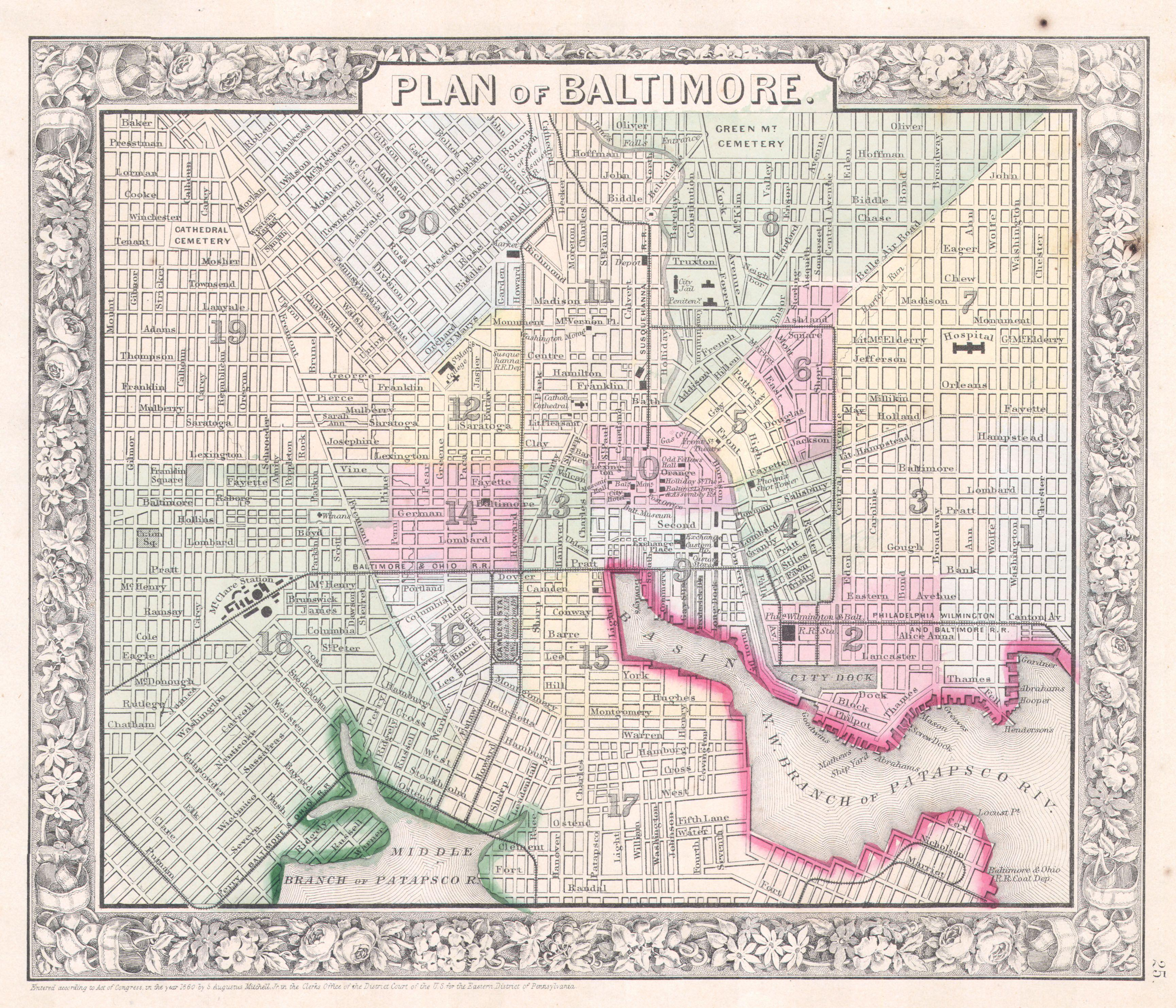 A beautiful example of S. A. Mitchell Jr.’s 1864 map Baltimore, Maryland. Offers wonderful detail at the street level including references to the important buildings, trains, canals, and roads. Colored coded with pastels according to city wards. Surrounded by the attractive floral border common to Mitchell atlases between 1860 and 1865. One of the more attractive atlas maps of Baltimore to appear in the mid 19th century. Prepared by S. A Mitchell Jr. for inclusion as plate 25 in the 1864 issue of Mitchell’s New General Atlas . Dated and copyrighted, “Entered according to Act of Congress in the Year 1860 by S. Augustus Mitchell Jr. in the Clerk’s Office of the District Court of the U.S. for the Eastern District of Pennsylvania.